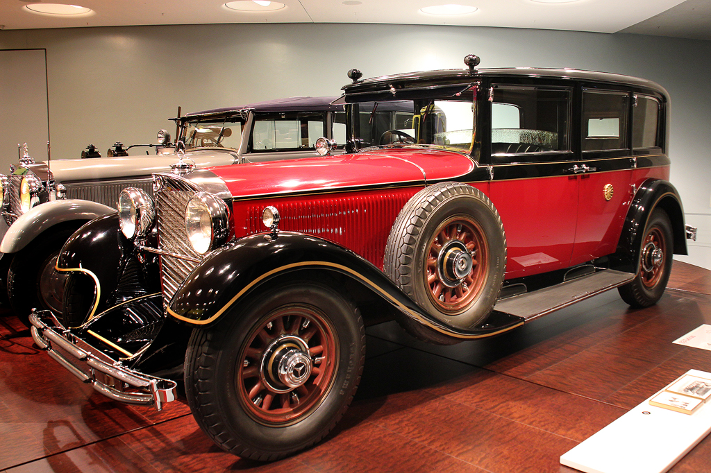 Visit at the Mercedes-Benz Museum, 09.04.2011